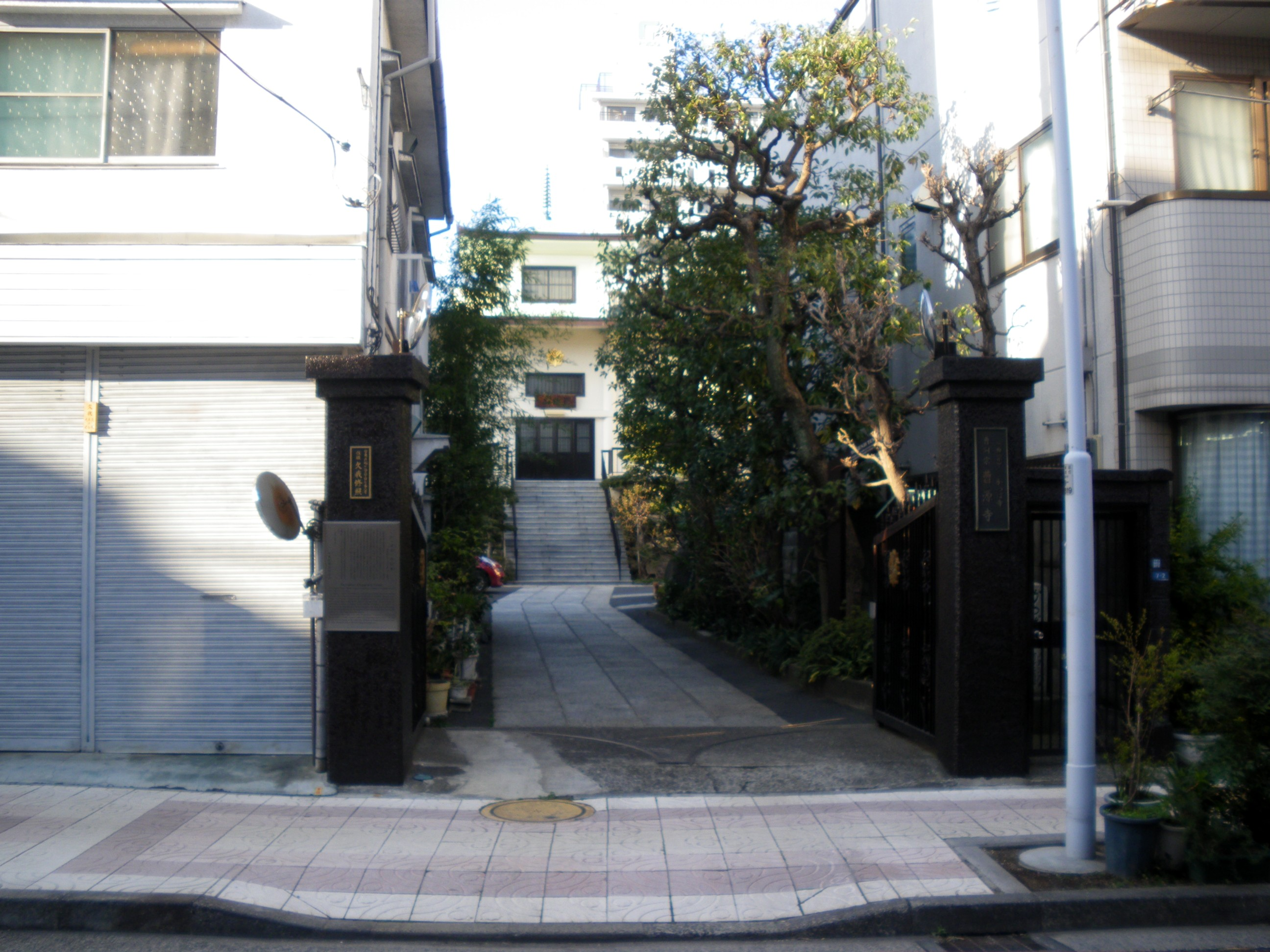 Sogenji Temple(Kappadera)(Matsugaya,Taito,Tokyo)